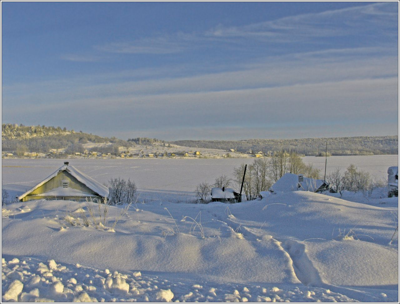 Spassk Bay (lake Munozero), winter, Karelia.